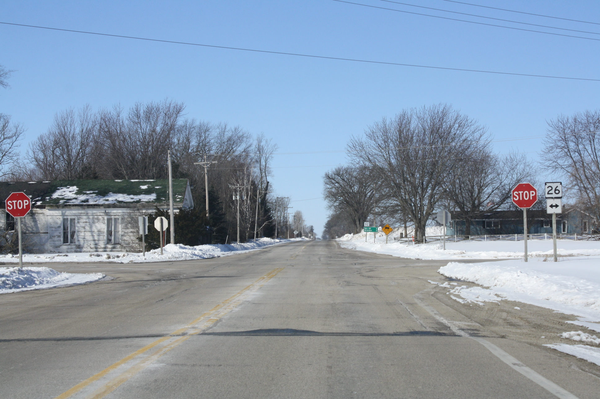 Looking west in Ladoga, Wisconsin along the former Wisconsin Highway 103.